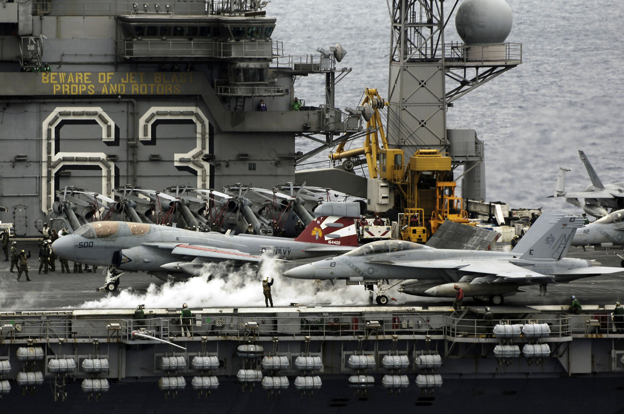 PACIFIC OCEAN (Aug. 6, 2008) An EA-6B Prowler assigned to Electronic Attack Squadron (VAQ) 136 launches from the aircraft carrier USS Kitty Hawk (CV 63) for the last time. Carrier Air Wing 5 aircraft flew off Kitty Hawk to join the nuclear-powered aircraft carrier USS George Washington (CVN 73) in San Diego. George Washington will replace Kitty Hawk as the Navy's only carrier operating from Japan in September. Kitty Hawk is headed back to the U.S. mainland for decommissioning in early 2009. (U.S. Navy photo by Mass Communication Specialist 3rd Class Kyle D. Gahlau/Released)